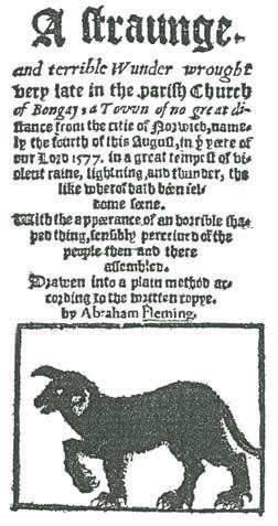 Title page of the account of Abraham Fleming's account of the appearance of the ghostly black dog "Black Shuck" at the church of Bungay, Suffolk in 1577: "A straunge, and terrible wunder wrought very late in the parish church of Bongay: a town of no great distance from the citie of Norwich, namely the fourth of this August, in ye yeere of our Lord 1577."